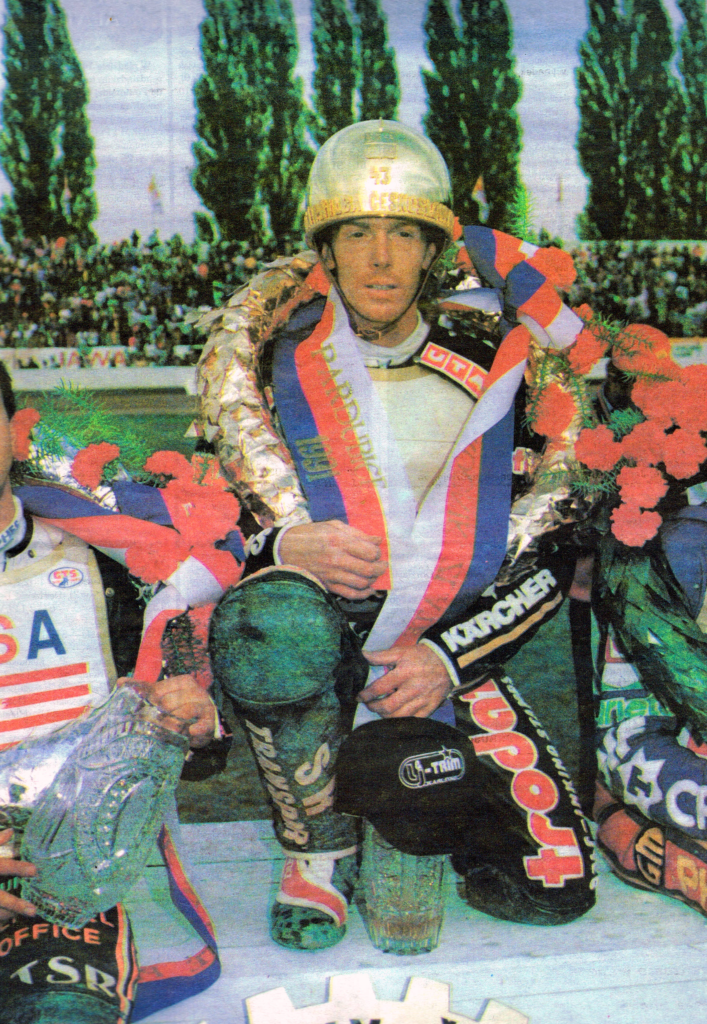 Antonin Kasper. Czech speedway rider. Pardubice 1991.